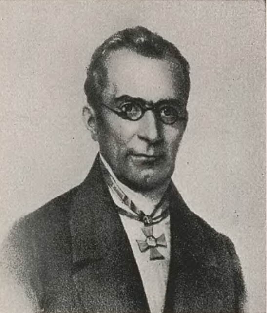 Carl Johann Bernhard Karsten (1782–1853) German metallurgist and mineralogist.